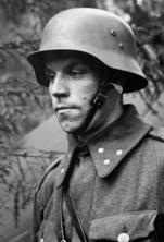 Knight of the Mannerheim Cross #9